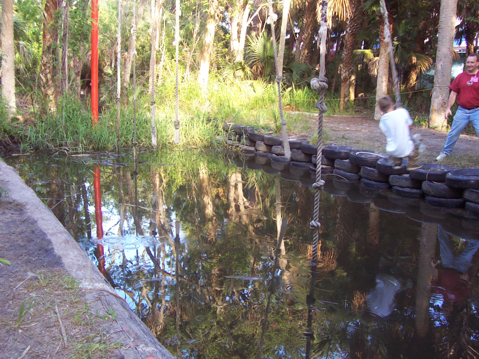 The Slough of Despond. One of the most infamous obstacles of TMI's obstacle course.